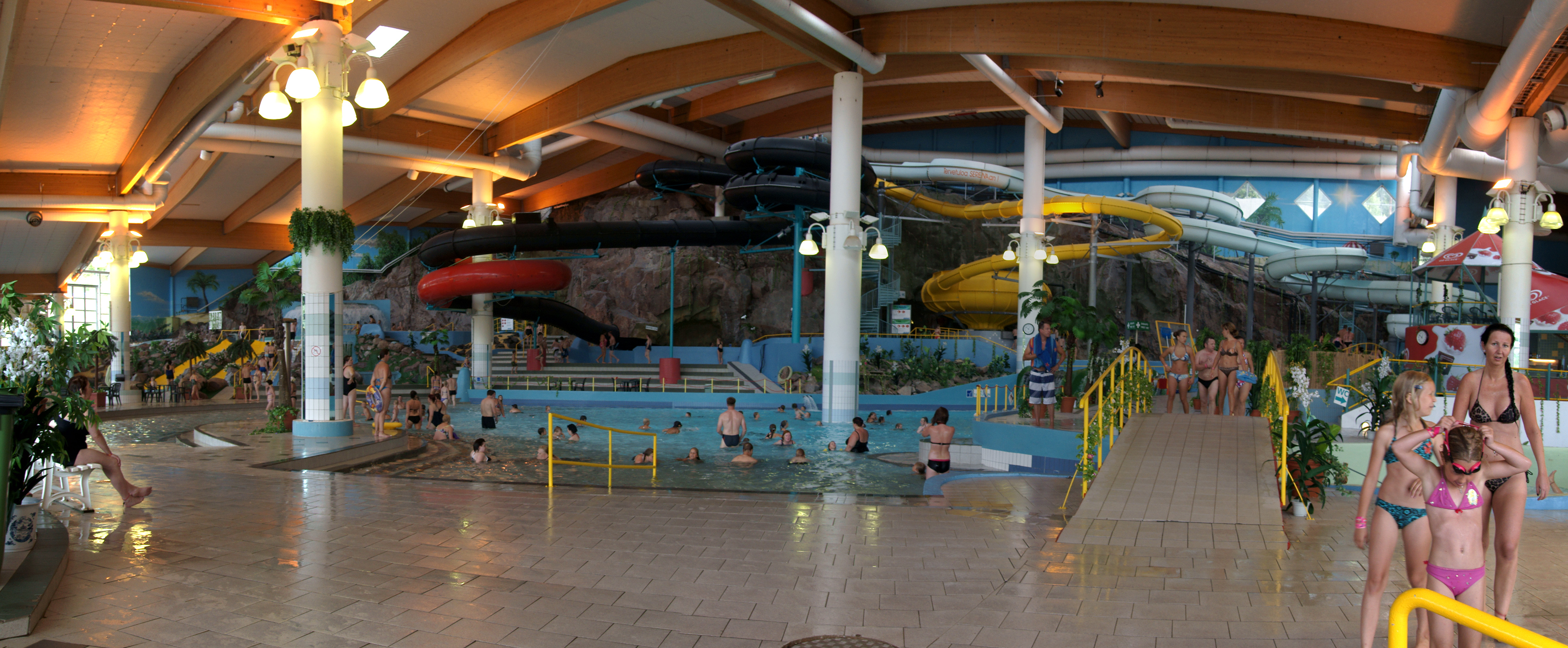 Panorama of water park Serena.